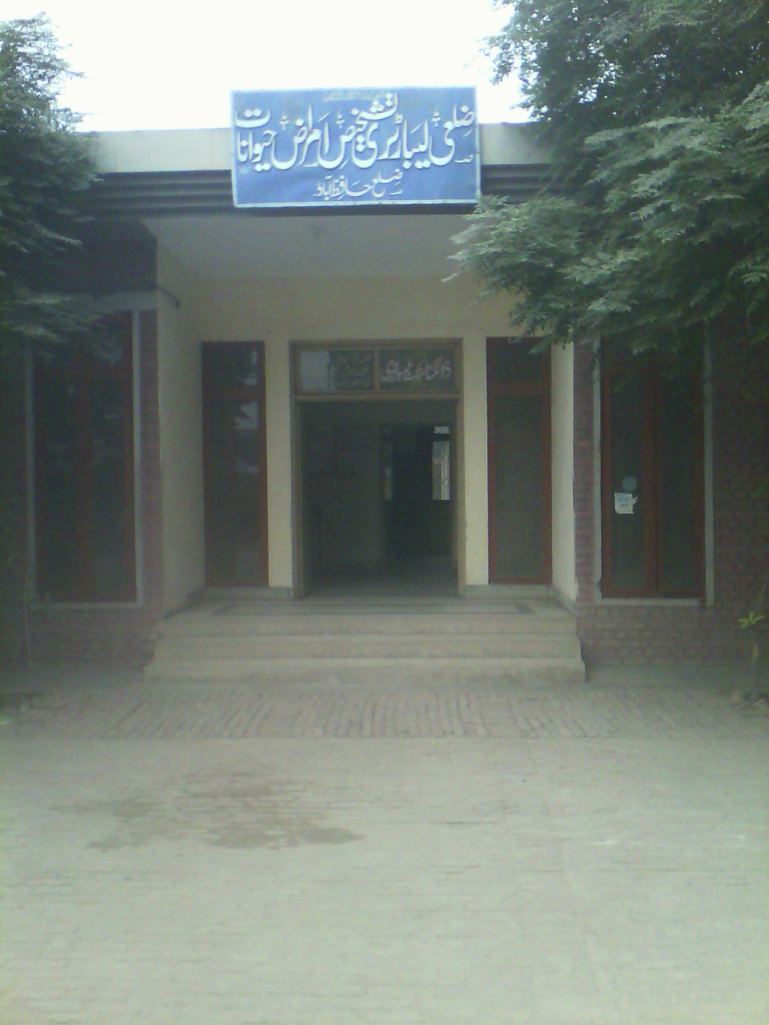 Laboratory Face